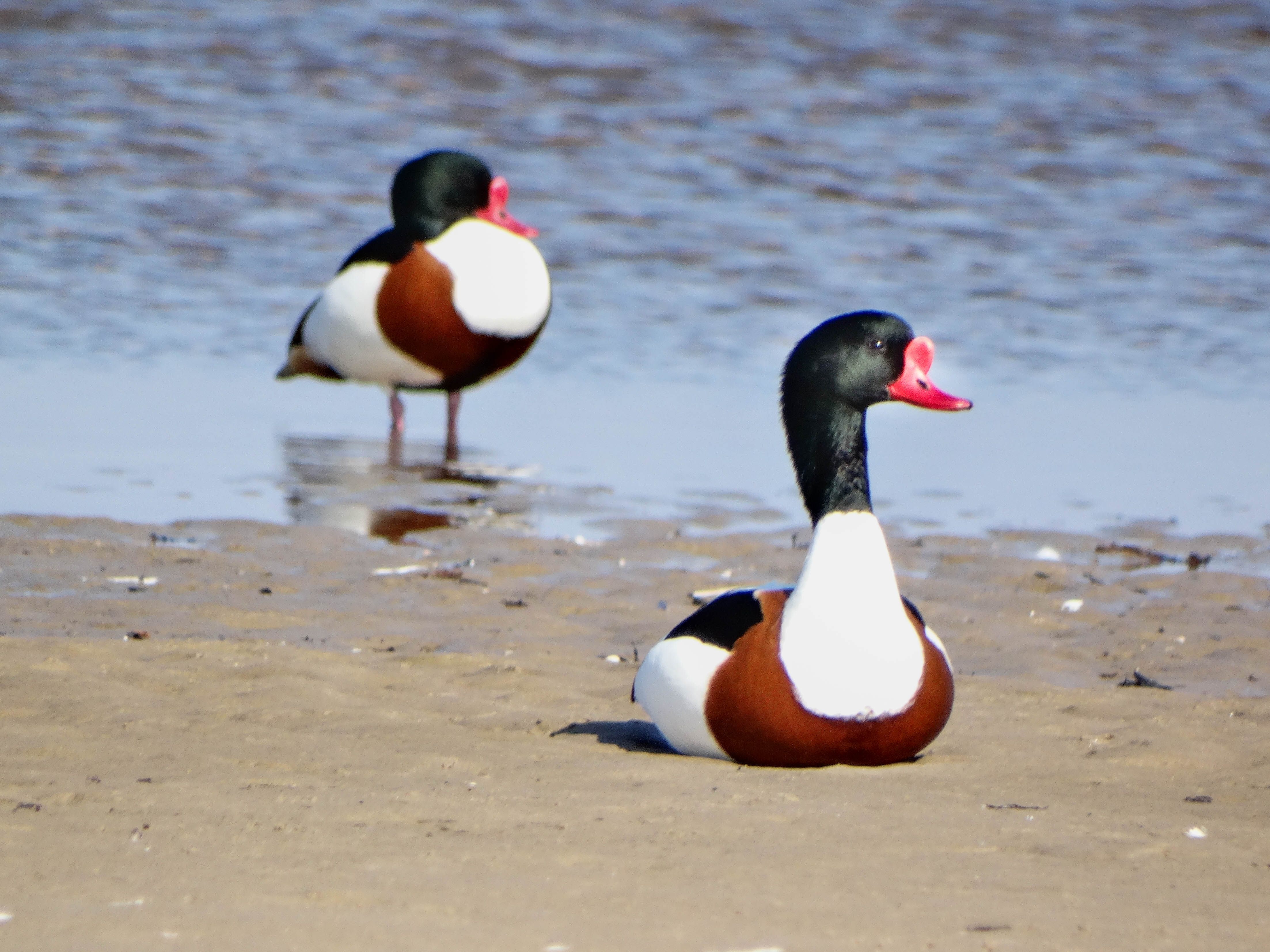 Common shelducks (Tadorna tadorna) at Lielupe river mouth